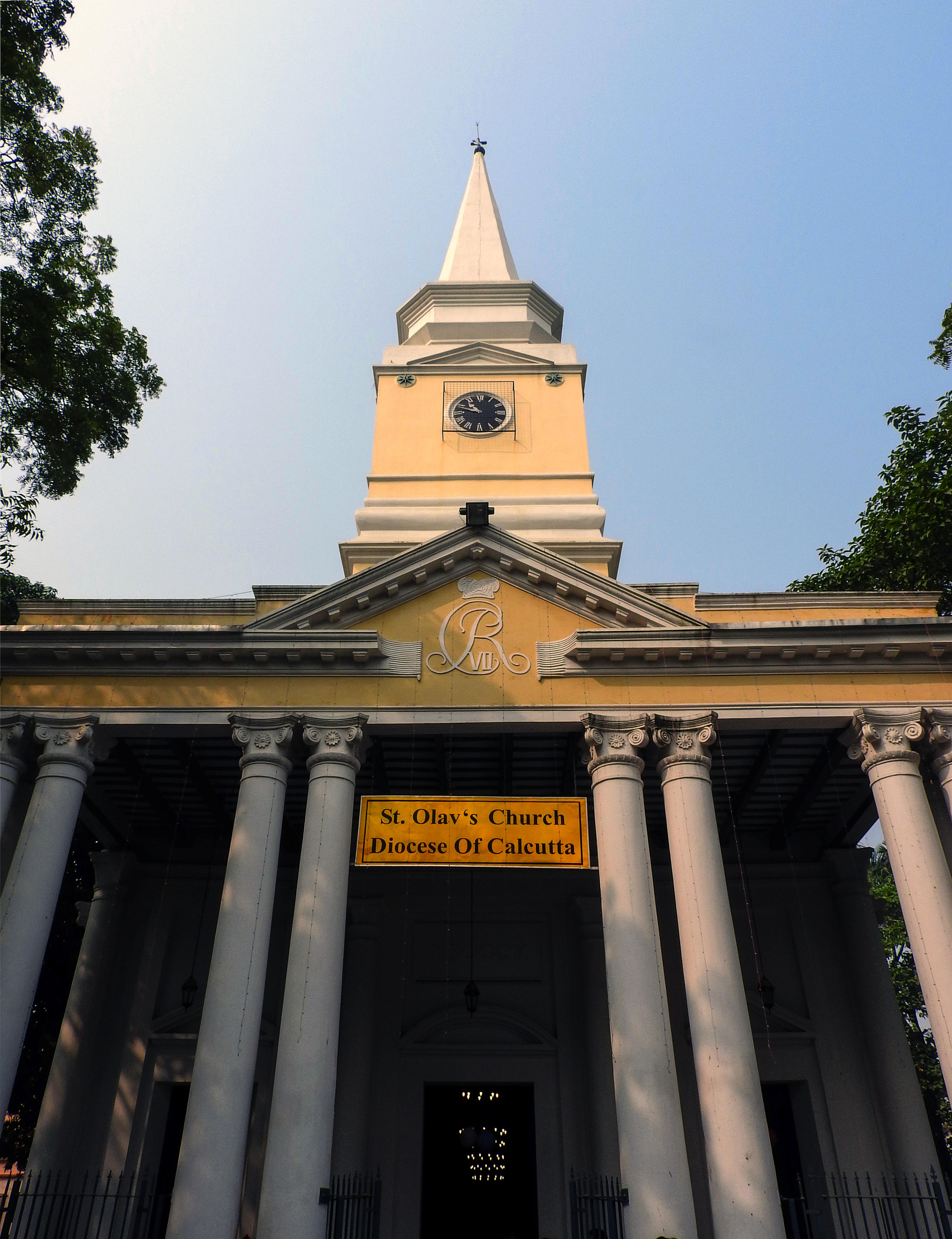 Front (entrance) of the Danish Church